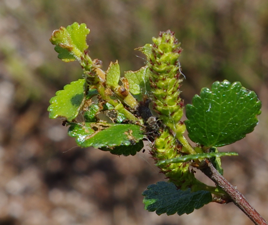 Betula nana at the ÖBG Bayreuth